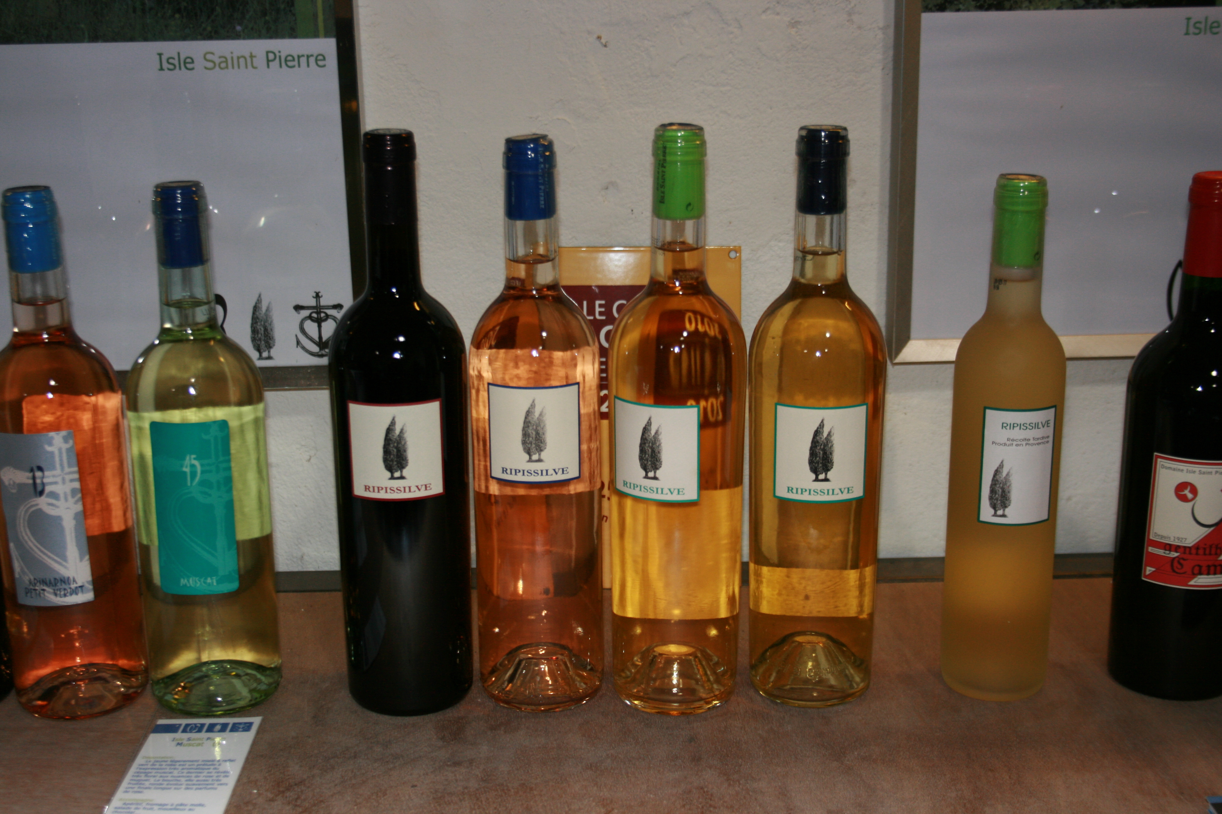 Wine bottle of Isle Saint-Pierre, in Camargue, France